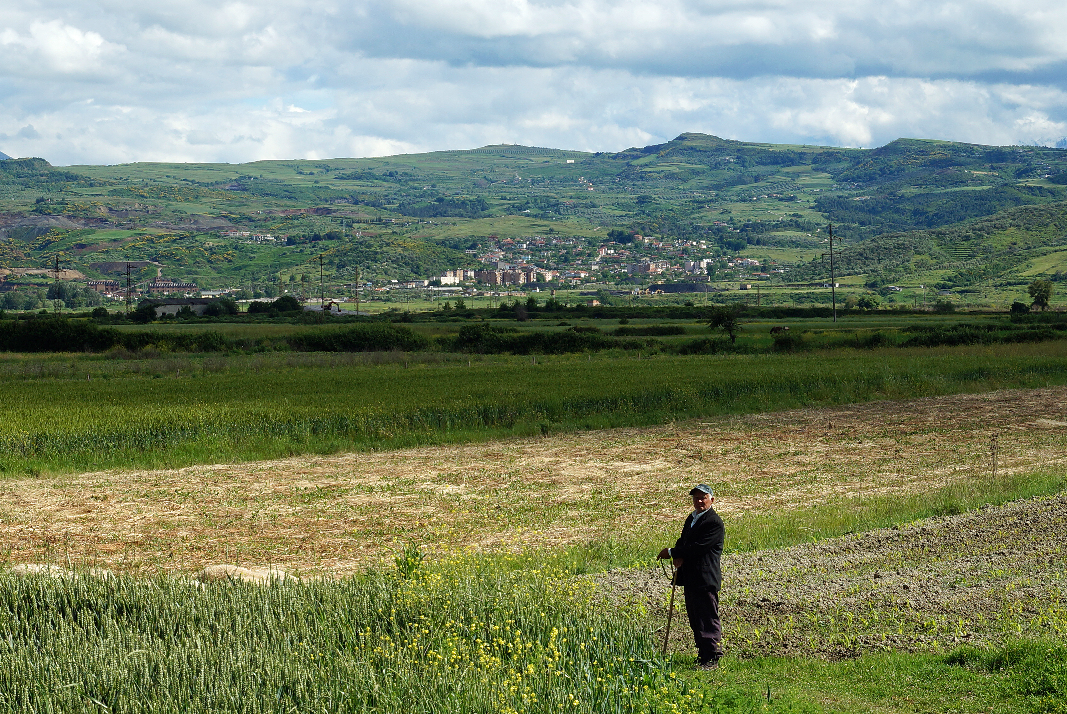 The town of Selenica in Southern Albania seen from North